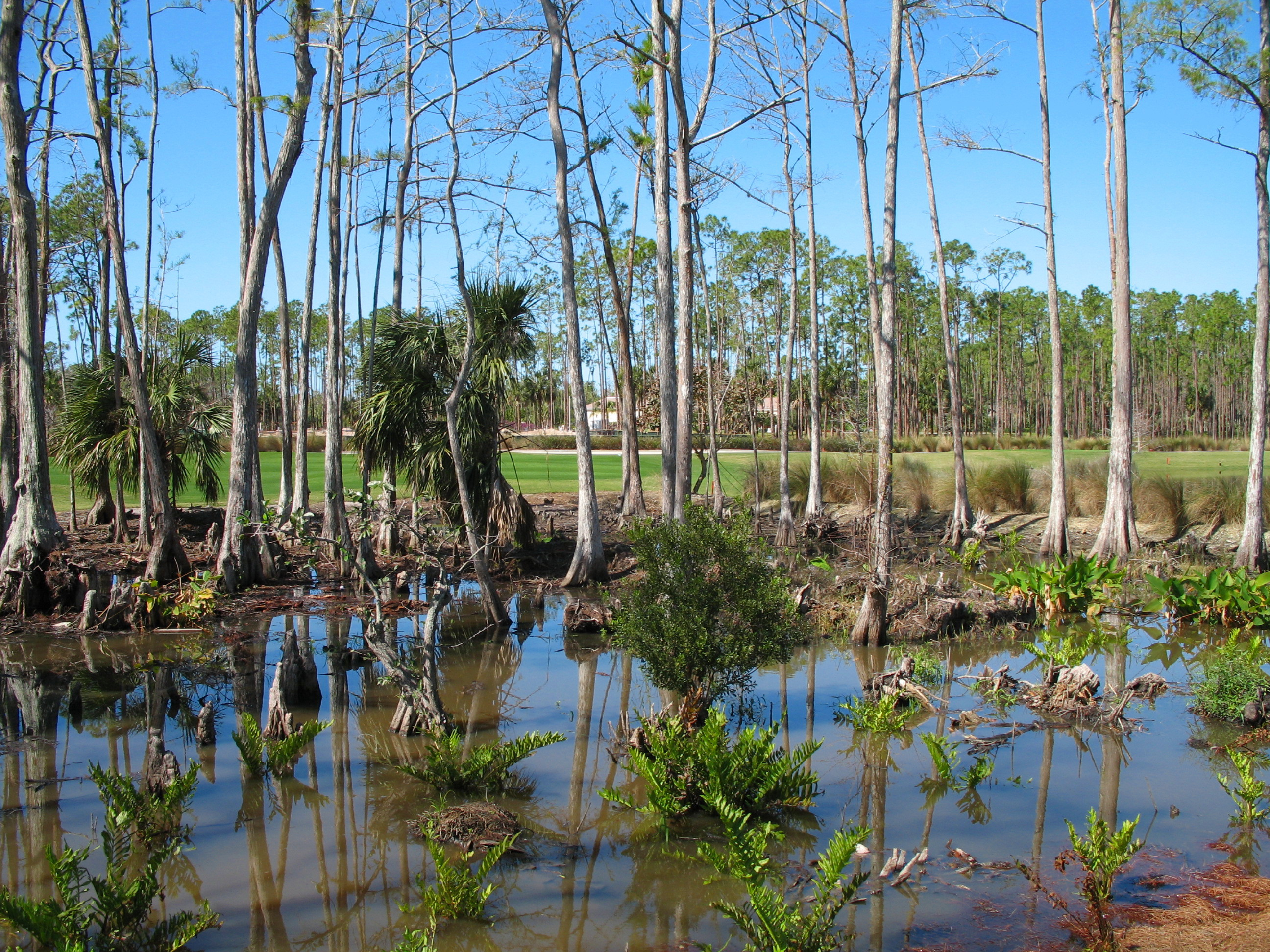 Naples (Florida, USA): swamps